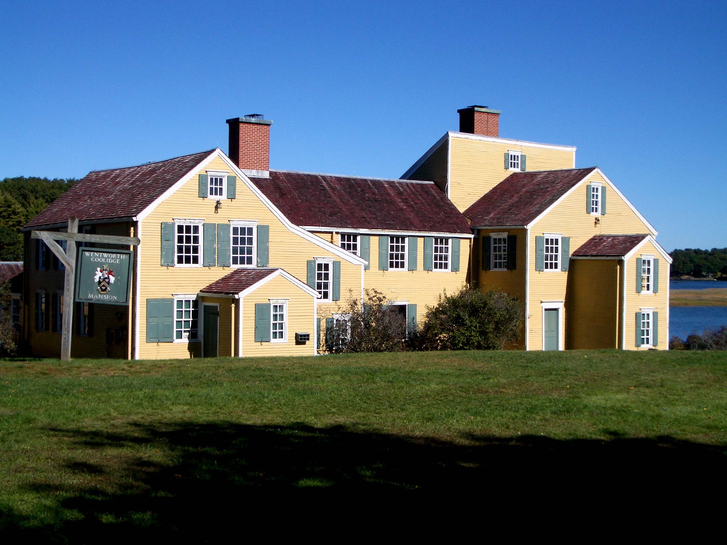 Wentworth-Coolidge Mansion, southwest view, showing service wing on left, and family wing at center and right, Little Harbor at far left.